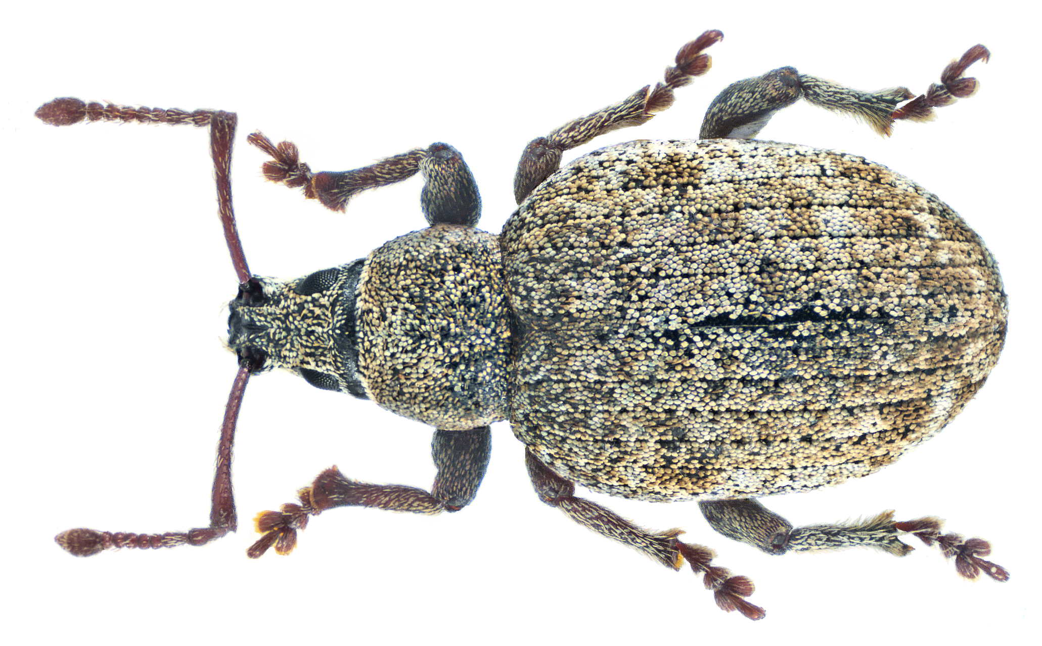 Family: Curculionidae Size: 6,2 mm (5,0 to 8,0 mm) Distribution: South Europe, Central Europe Ecology: lives polyphag on bushes Location: France, Loiret, Beaugency leg.det. M.I.Russel, 9.-10.VI.1977 Photo: U.Schmidt, 2015